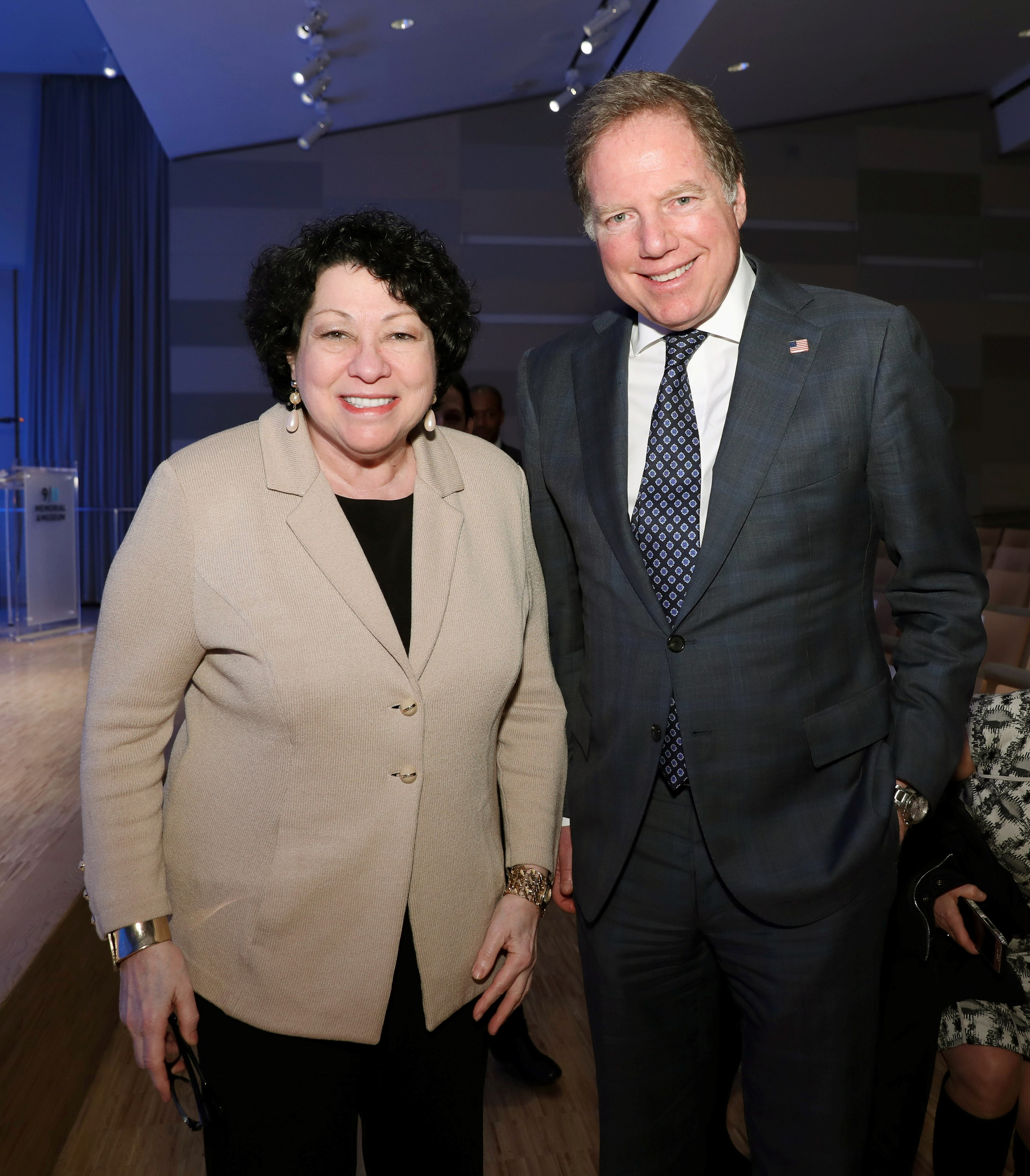 U.S. Attorney Berman attended as U.S. Supreme Court Justice Sonia Sotomayor reflected on the impact of the 9/11 attacks on American society from her unique vantage point as a native New Yorker who watched as her city and neighborhood were devastated, and then witnessed the city rebuild. On 9/11, she was a sitting judge on the United States Court of Appeals for the Second Circuit in lower Manhattan.